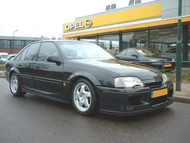 Opel Lotus Omega